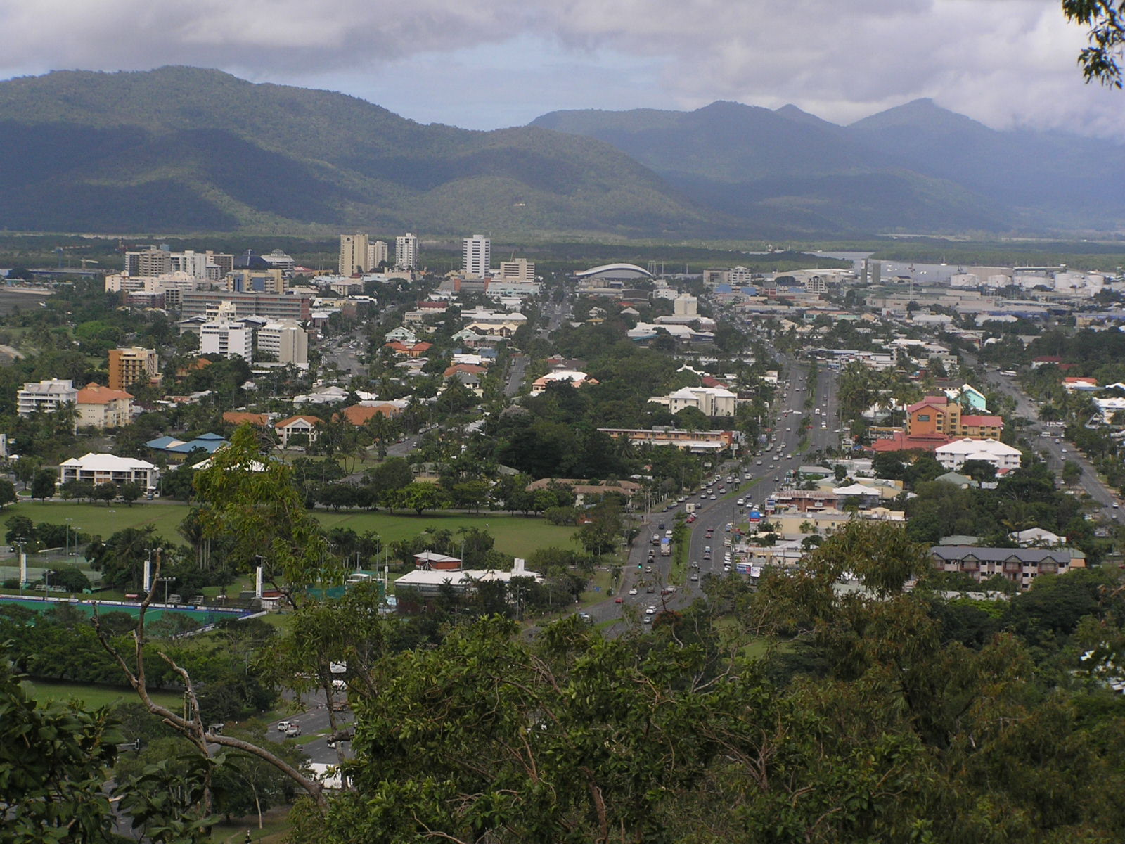 Central Cairns from Mt Whitfield looking east. Sheridan Street, the main street running east-west becomes the Captain Cook Highway leading to Port Douglas. The chemical storage tanks seen in the top right are in the suburb of Portsmith. The tall buildings to the left are mainly hotels, located in the central business district. The building with the curved roof roughly in the centre of the picture is the Cairns Convention Centre.